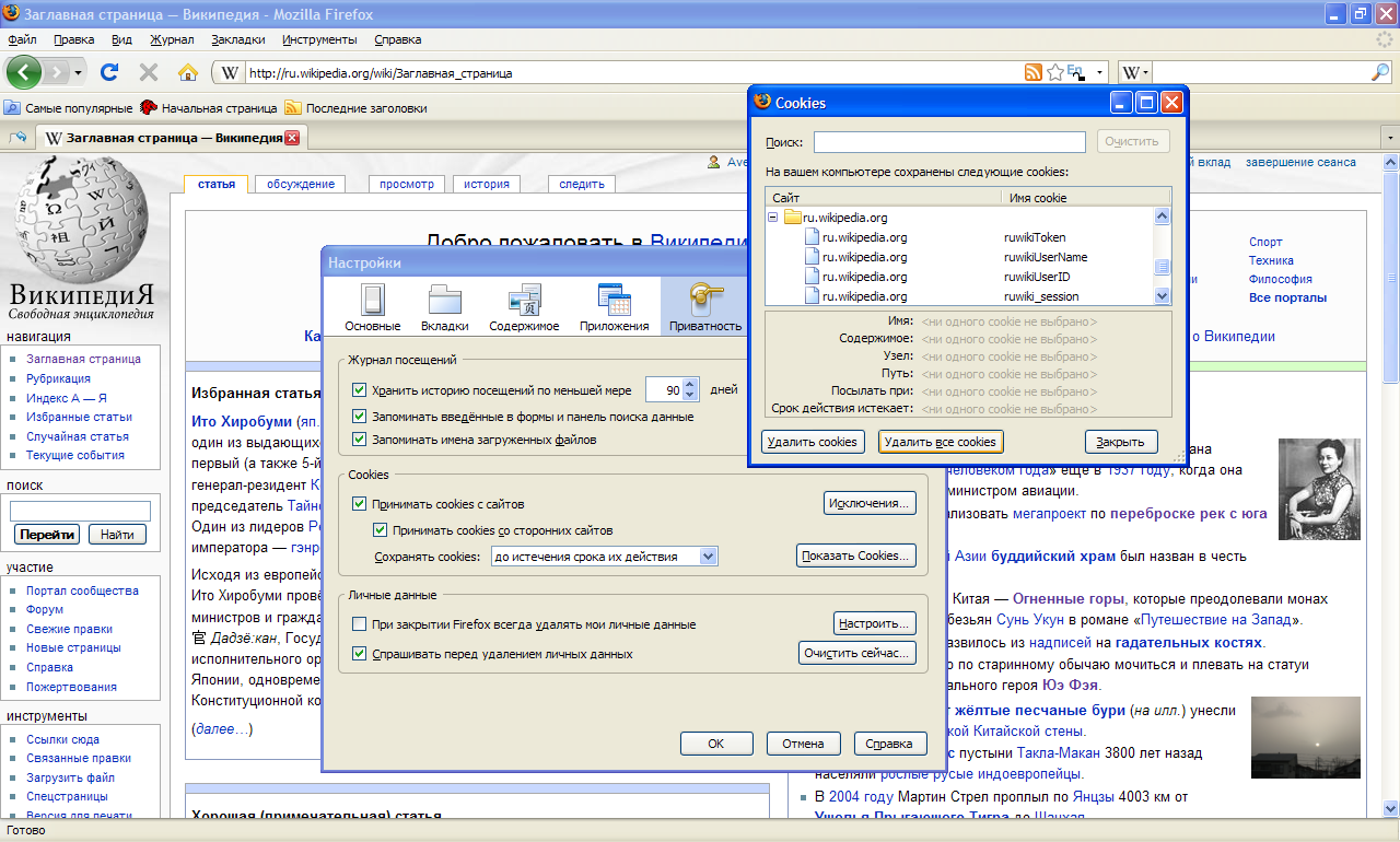 Cookies settings and view in Firefox 3.0 browser